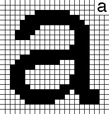 Illustration of a bitmap-font, made by me with Adobe Photoshop